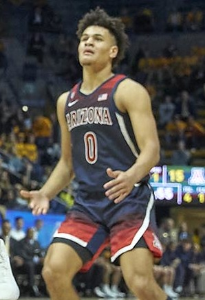 University of California Golden Bears hosted University of Arizona Wildcats, Pac-12, Mens Basketball, Haas Pavilion, Berkeley, CA